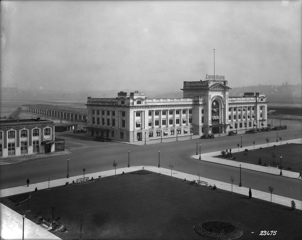 Vancouver Station and grounds.